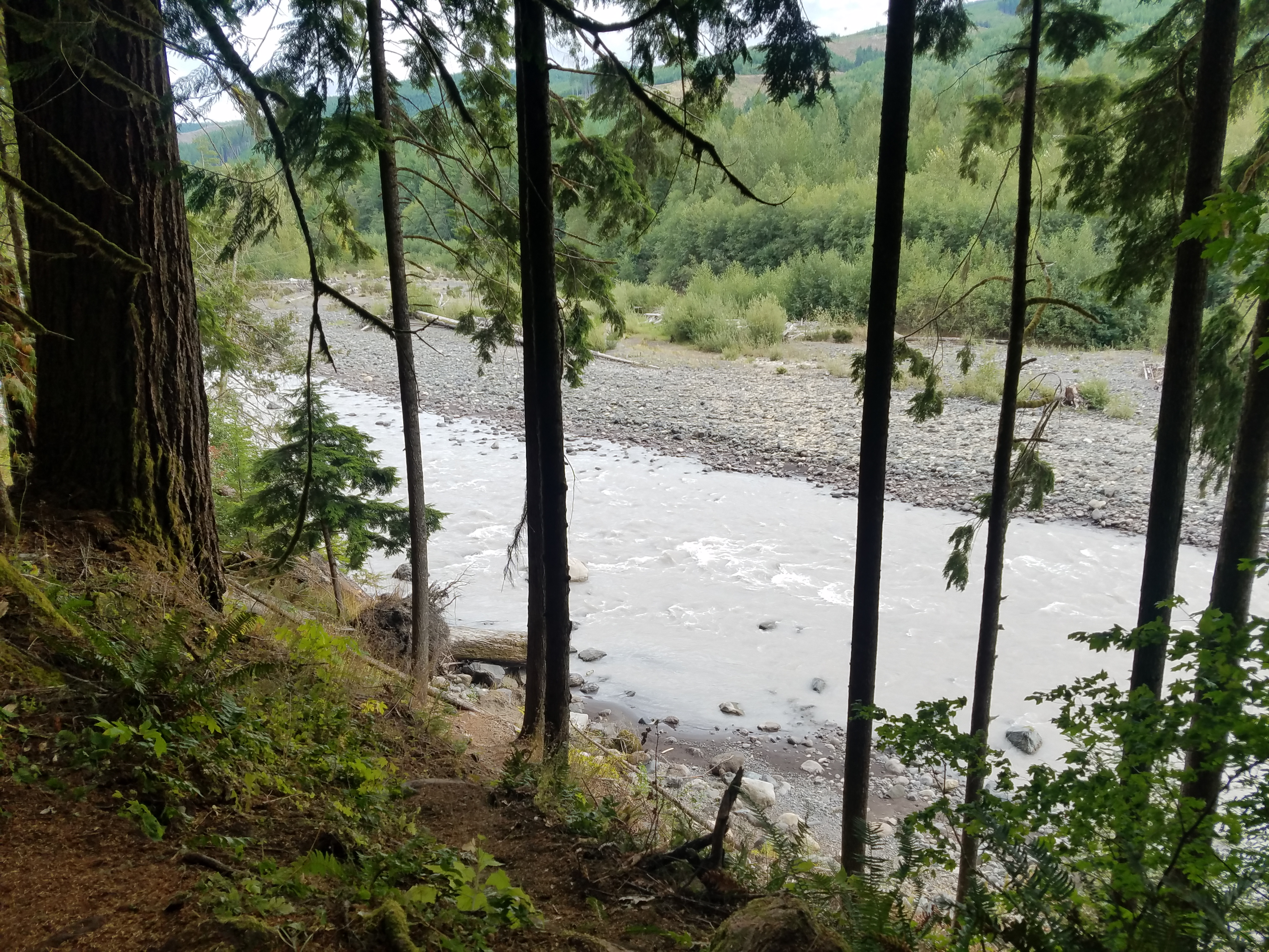 The White River in the U.S. state of Washington as viewed from a hillside in Federation Forest State Park.